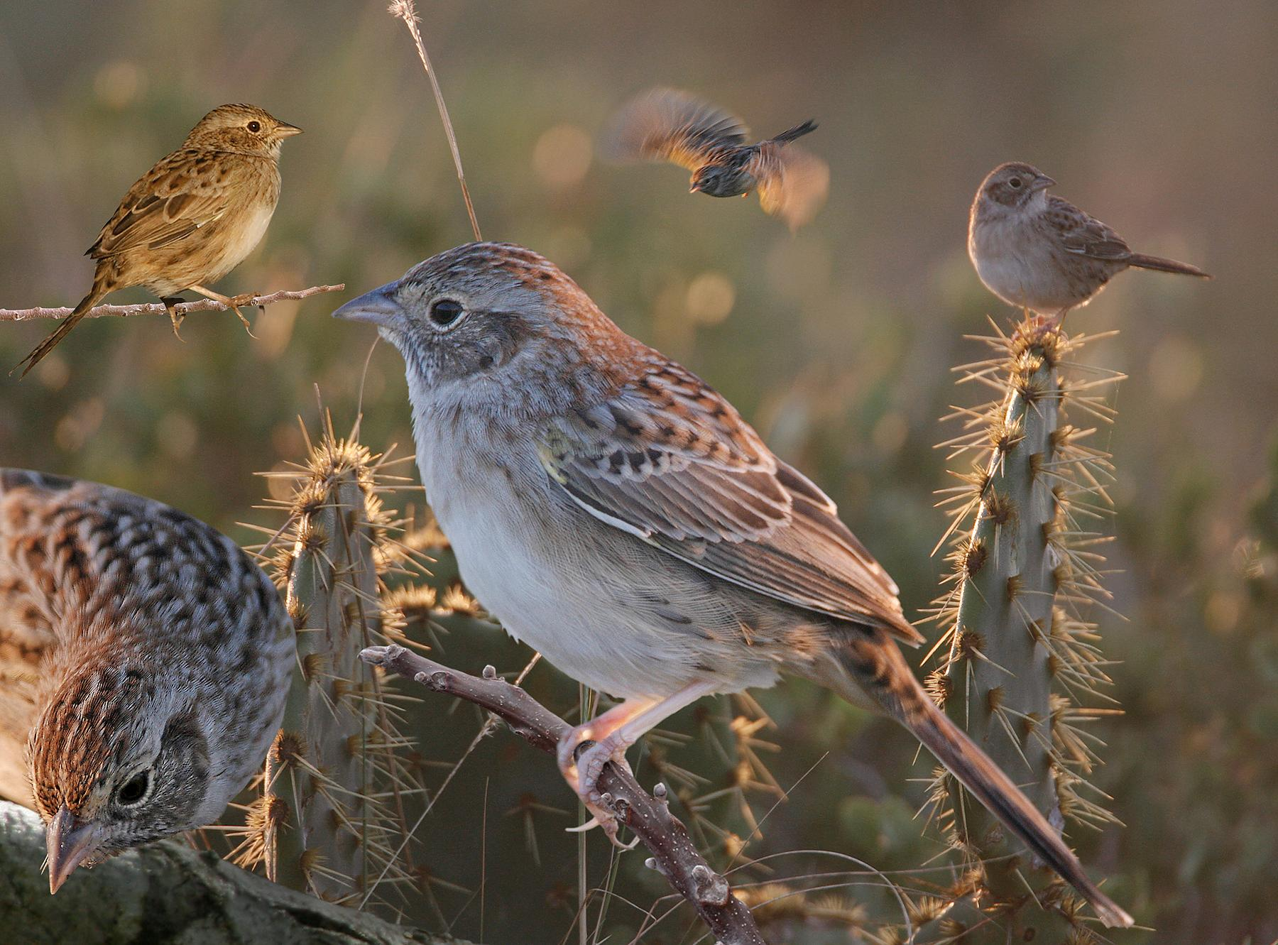 Cassins sparrow From The Crossley ID Guide Eastern Birds